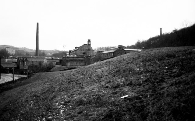 Armitage Bridge Mills Sorry, lousy picture. A very large textile mill complex that is on the front cover of Giles & Goodall, Yorkshire Textile Mills 1770-1930. The book is a must have if this is your thing. The detached chimney is part of the same complex, long disused and in the middle of a wood. The site had two Gunter water turbines and might still be generating with them (green). There was also a Belliss & Morcom steam engine - probably gone for 20+ years. This is Brooke's Mill - one of the longest running family owned businesses in the UK. The mill has been in the same family and run as a business since 1541. It is currently a business park, film studio (Where the heart is) and art gallery (The North Light Gallery), incorporating a dance school, art school and conference/venue hire. The water turbines are in the process of being renovated with a view to supplying the site's energy needs and the entire mill is being sympathetically restored using sustainable resources and ethical building practices. In the long-term, the plan is to introduce a sculpture trail to the surrounding woodlands.